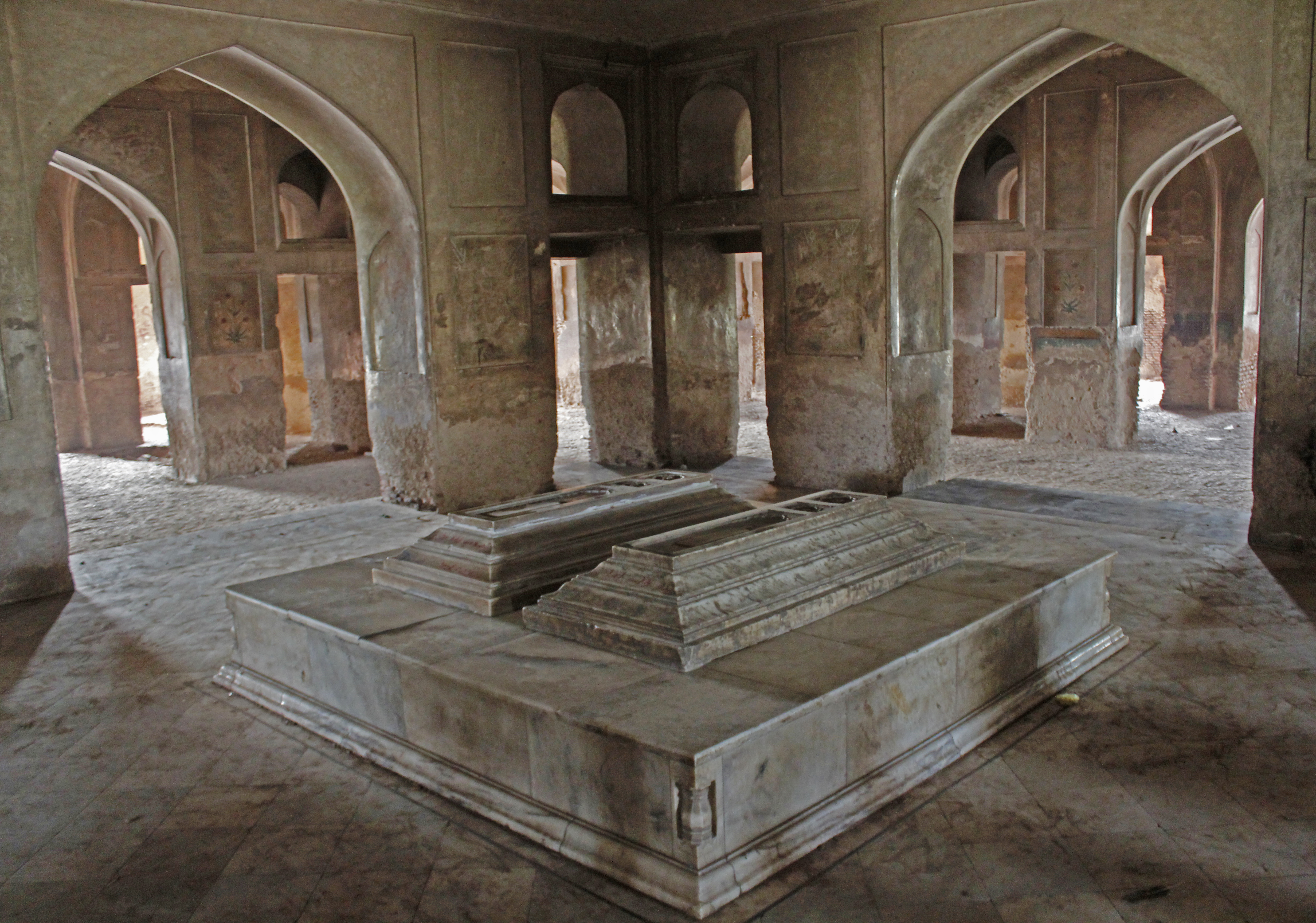 Tomb of Nur Jahan This is a photo of a monument in Pakistan identified as the PB-91